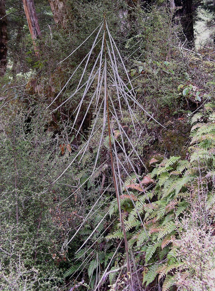 Lance wood (Pseudopanax crassifolius) in native bush in the Owen River valley, South Island, New Zealand